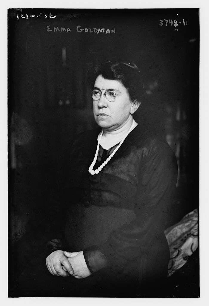 Emma Goldman circa 1915-1916. Image from the Library of Congress.